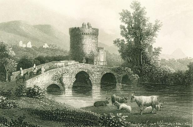 Steel engraving with the title Tomb of Plautius Lucanus, showing the Roman bridge called Ponte Lucano on the Via Tiburtina, Italy.